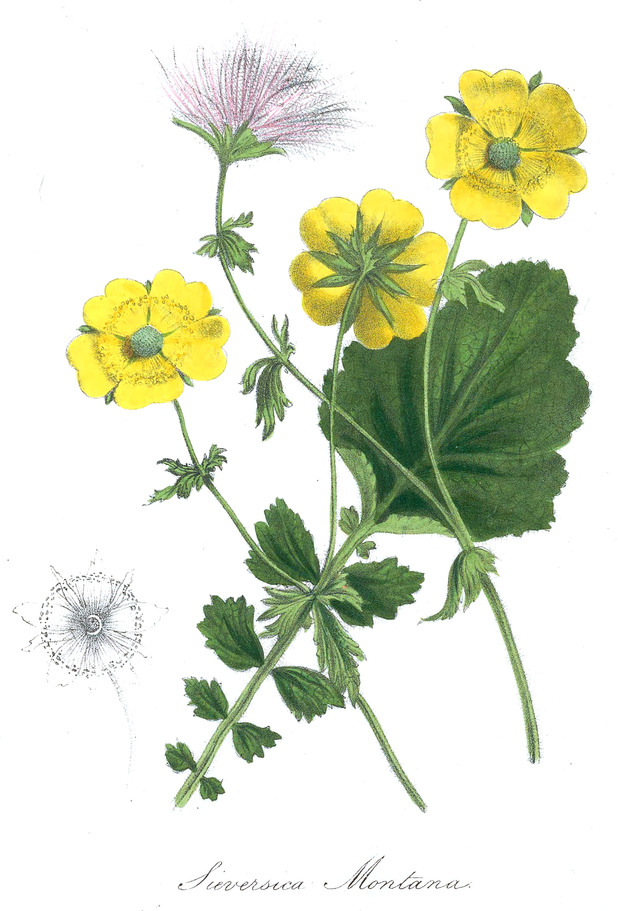 Sieversia montana (Geum montanum) in a colored engraving from 1838